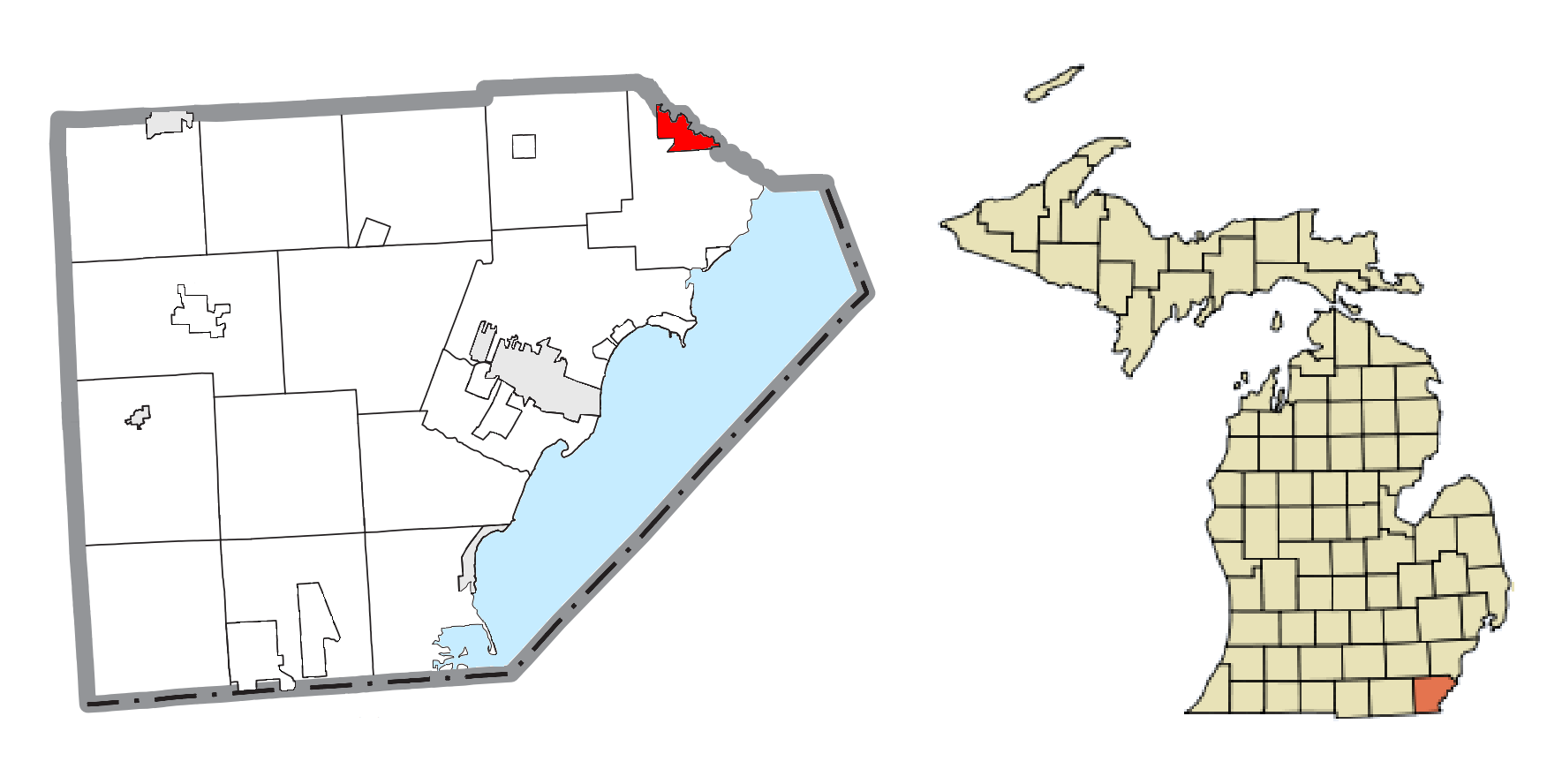 South Rockwood, MI